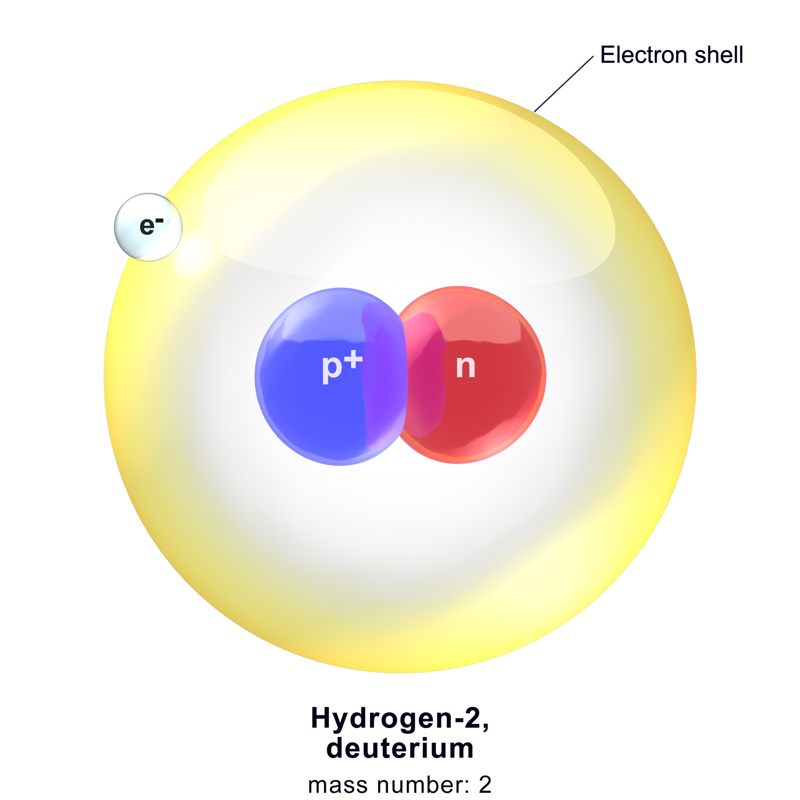 Hydrogen-2 Atom (Deuterium). See a related animation of this medical topic.